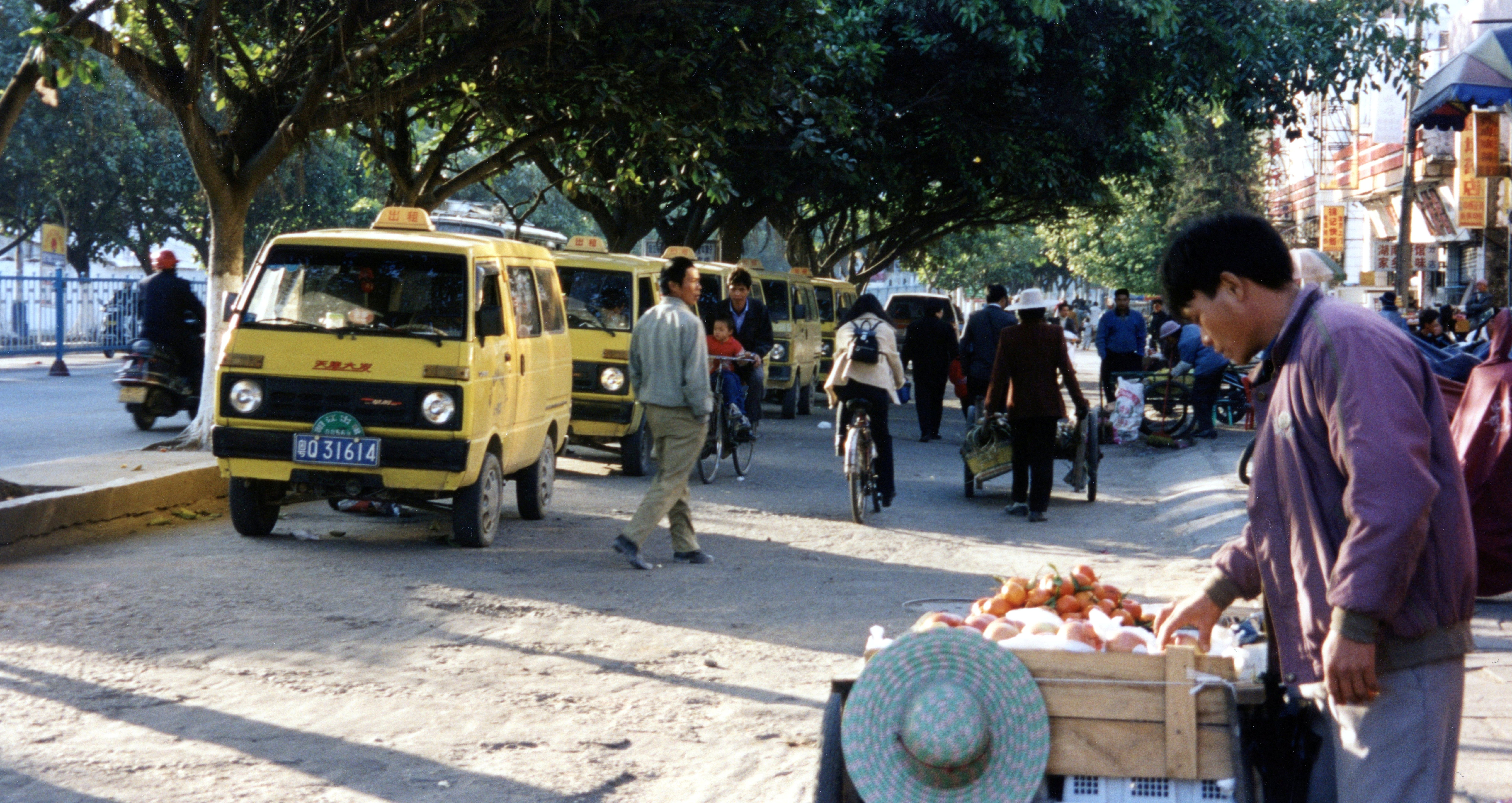 Zhaoqing, Guangdong taxi stand 1999